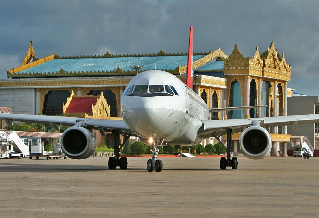 An unknown aircraft in Yangon Airport